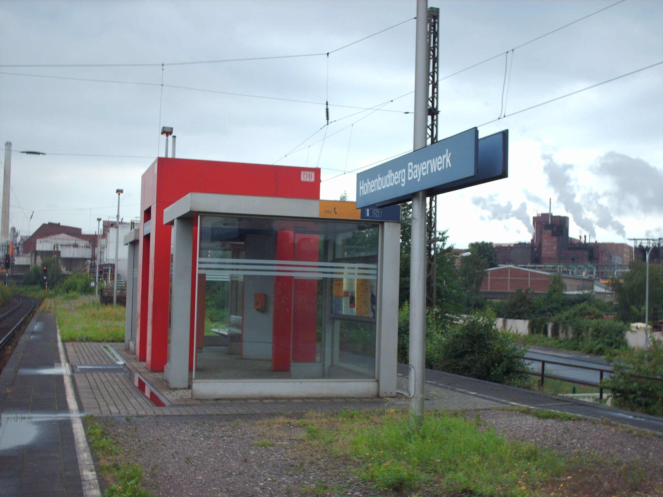 Hohenbudberg Bayerwerk station, Krefeld, Germany check usage